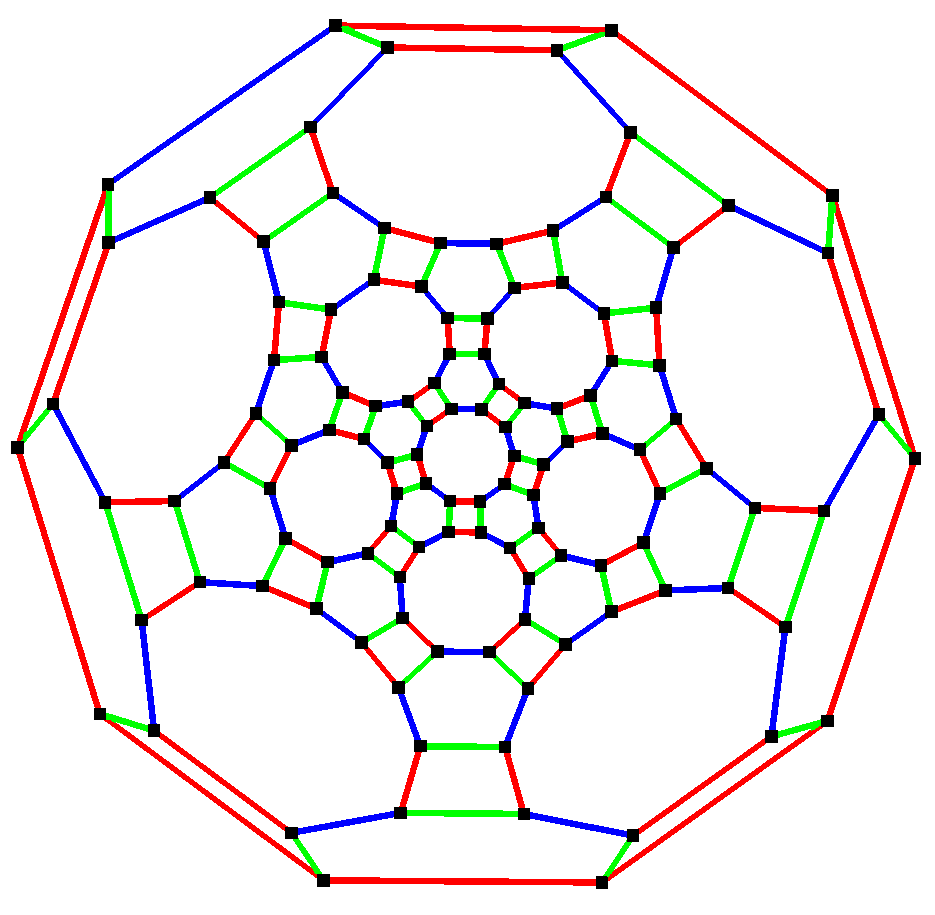 Schlegel diagram